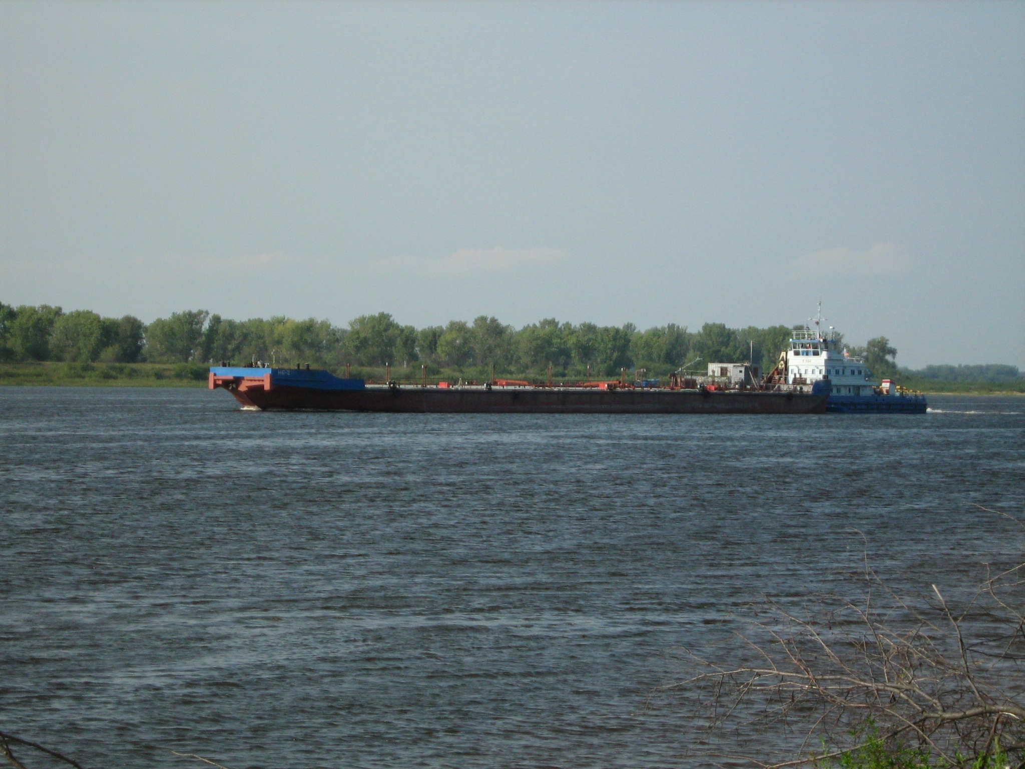 A barge on the Volga, upriver from Kstovo